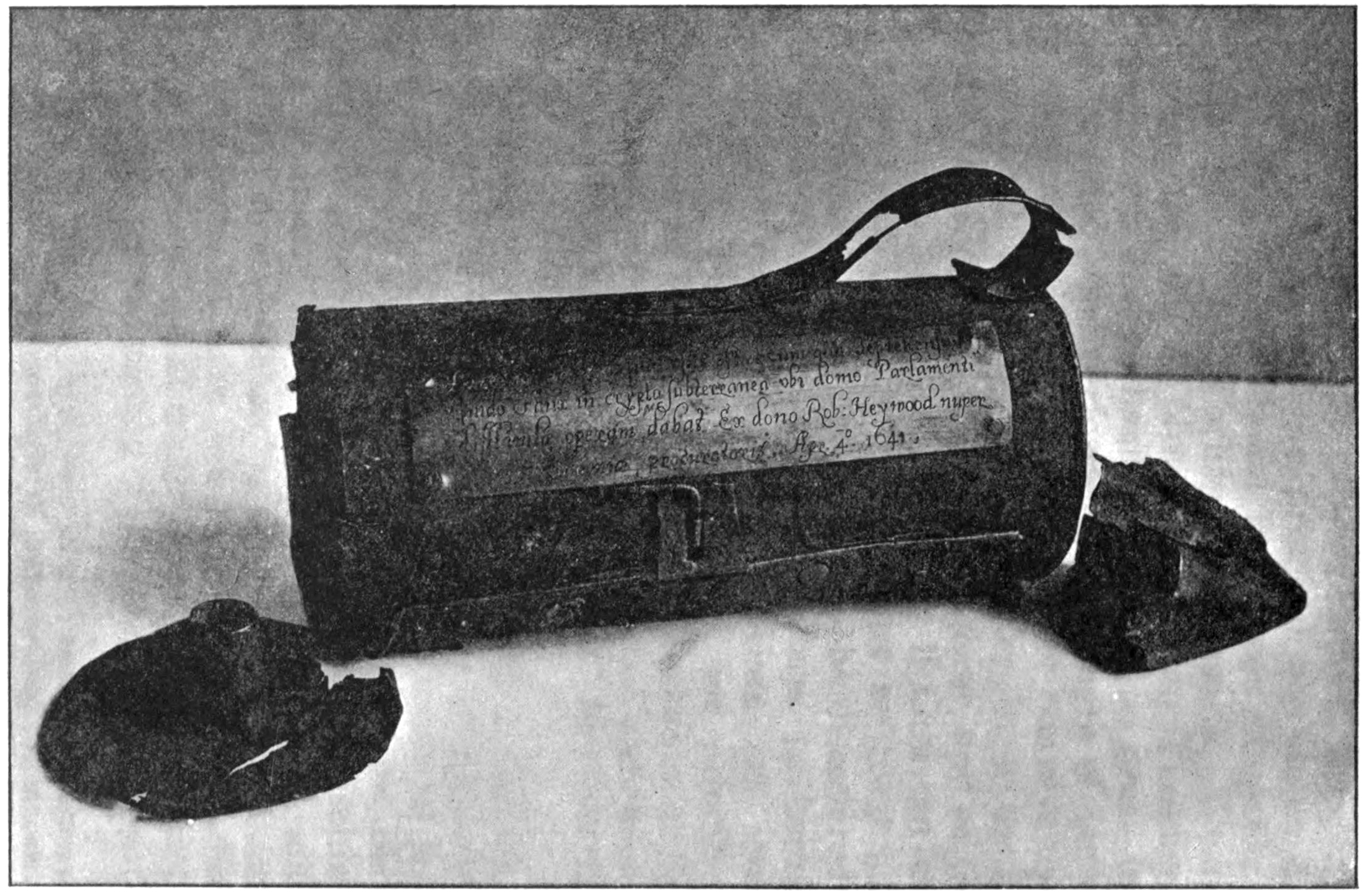 FAWKES' LANTERN. (Preserved at the Ashmolean Museum, Oxford)